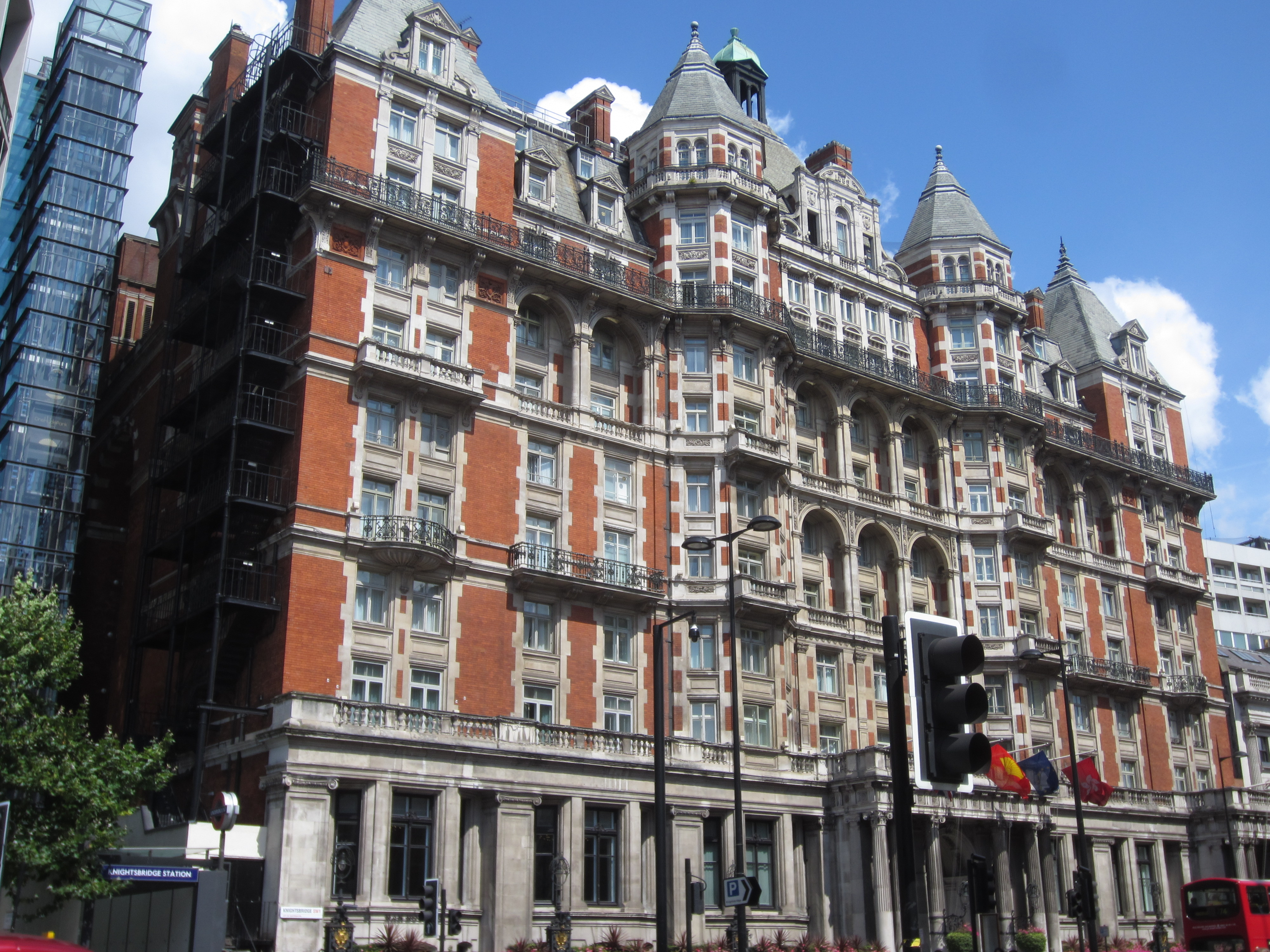 London, United Kingdom in August 2014